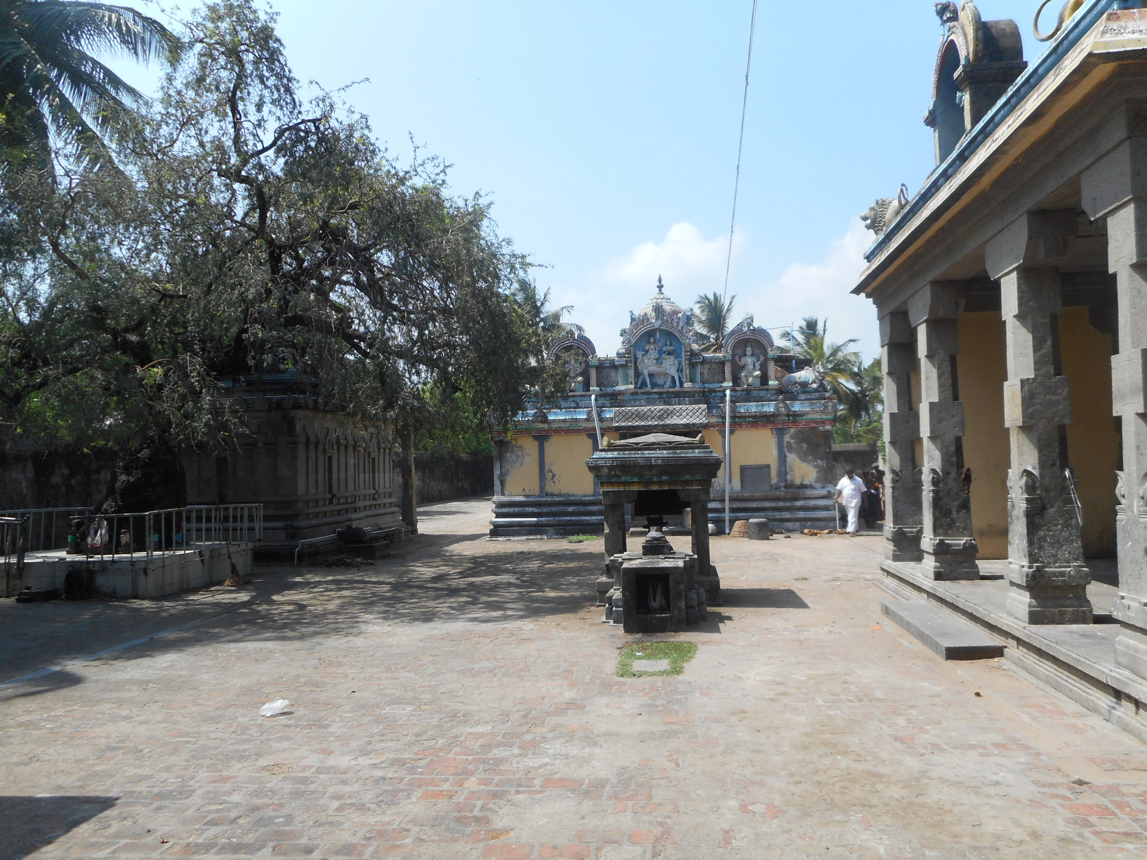 Agastianpalli temple அகத்தியான்பள்ளிகோயில்